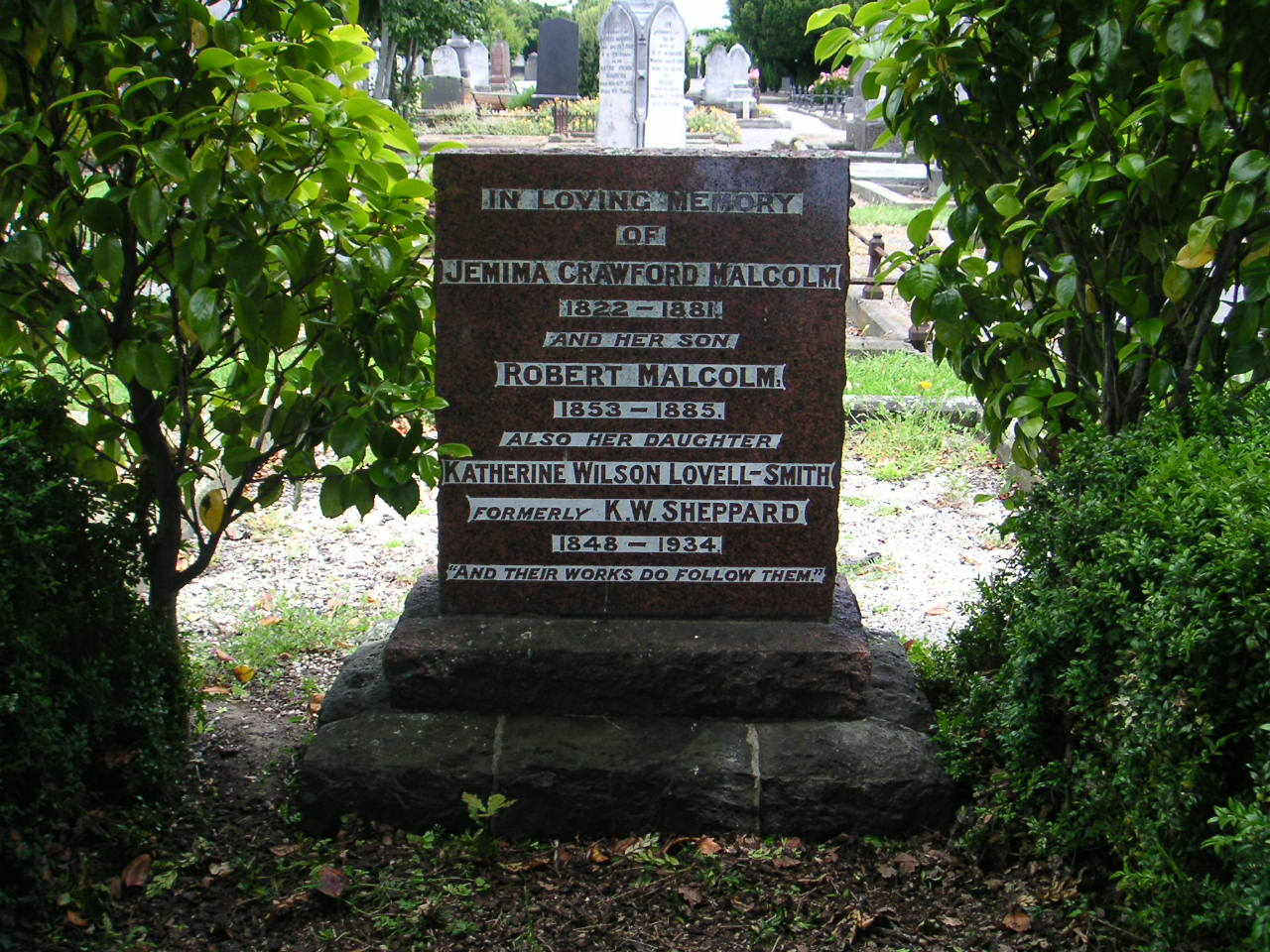 Kate Sheppard's grave at Addington Cemetery (note the birth year)